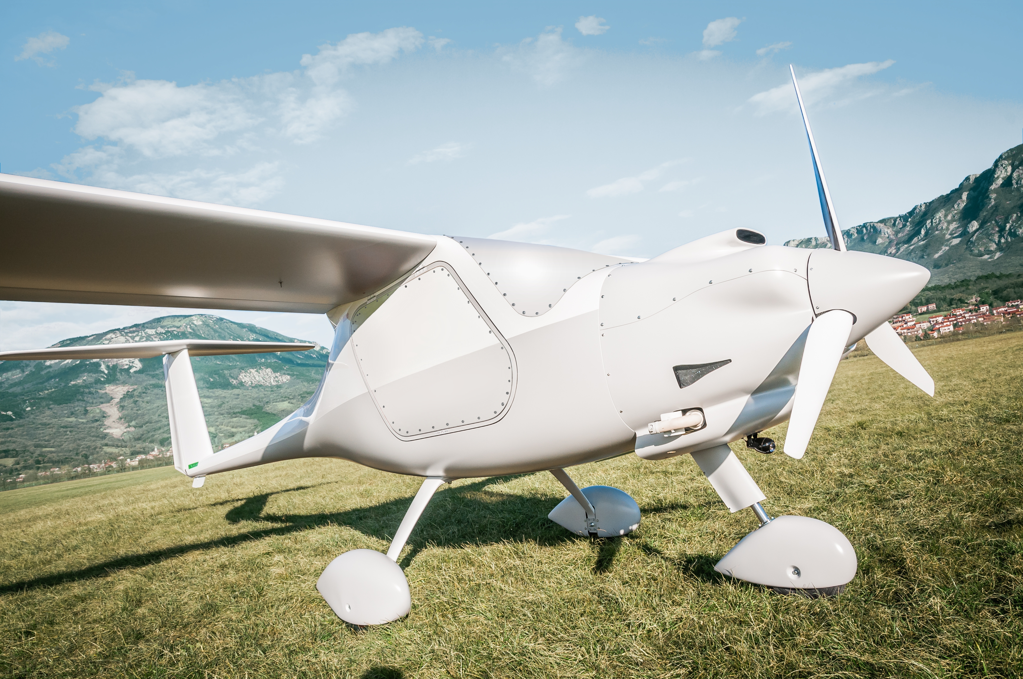 Pipistrel Sinus transformed into UAV with enhanced landing gear and hard points